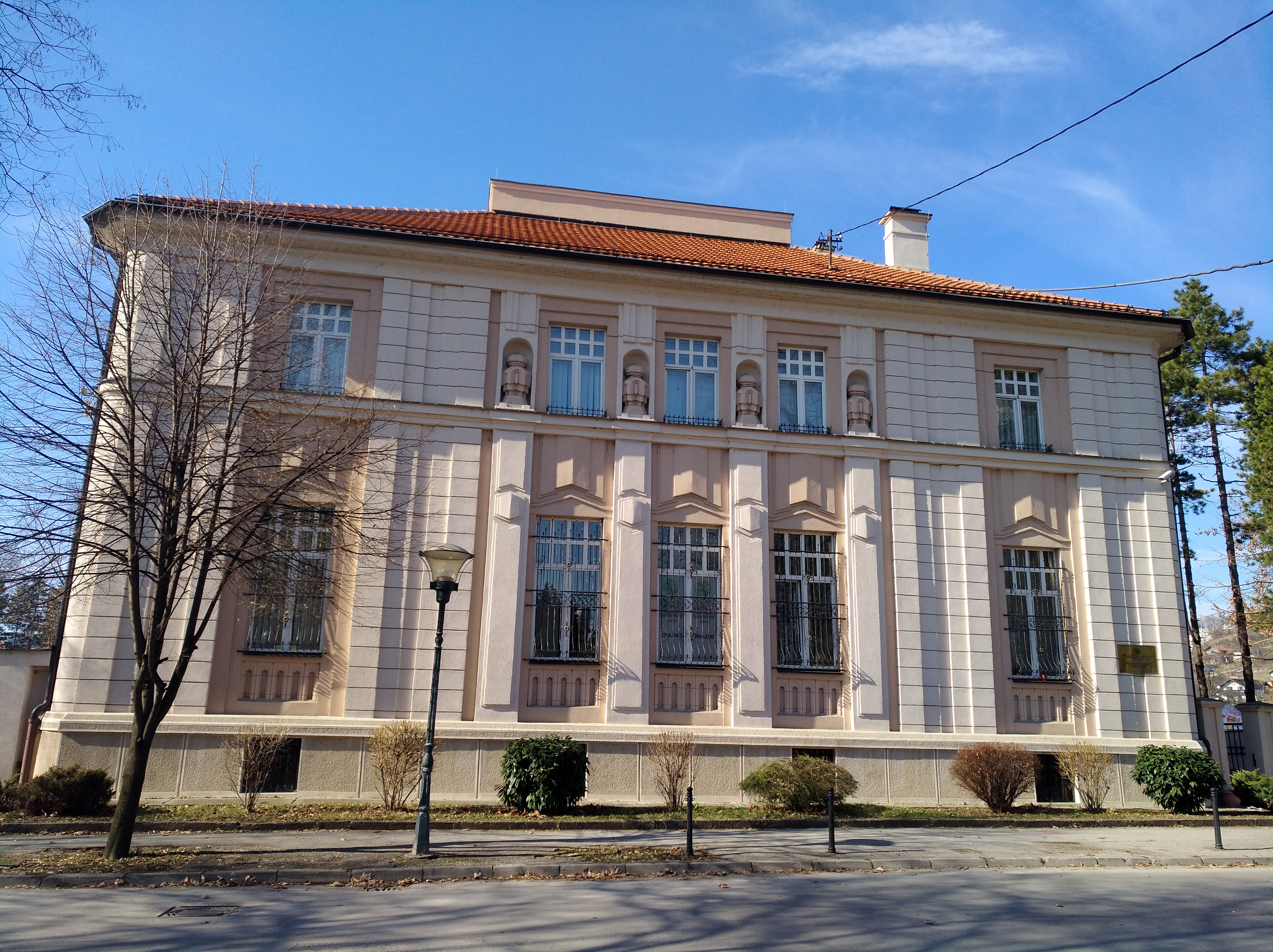 Palace of Eparchy of Zvornik and Tuzla, in Tuzla, Bosnia and Herzegovina.